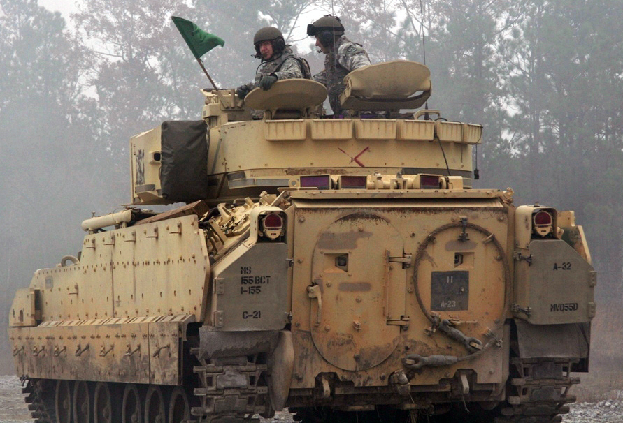 Army Capt. Michael Riley, commander of Company C, 1-185th Combined Arms Battalion, and Army Brig. Gen. Keith Jones, assistant deputy adjutant general for California’s Army National Guard, get front-row action as they observe a M2 Bradley fighting vehicle live-fire exercise at Camp Shelby, Miss. The exercise is part of training to ready the 1-185th CAB for a deployment to Kosovo.